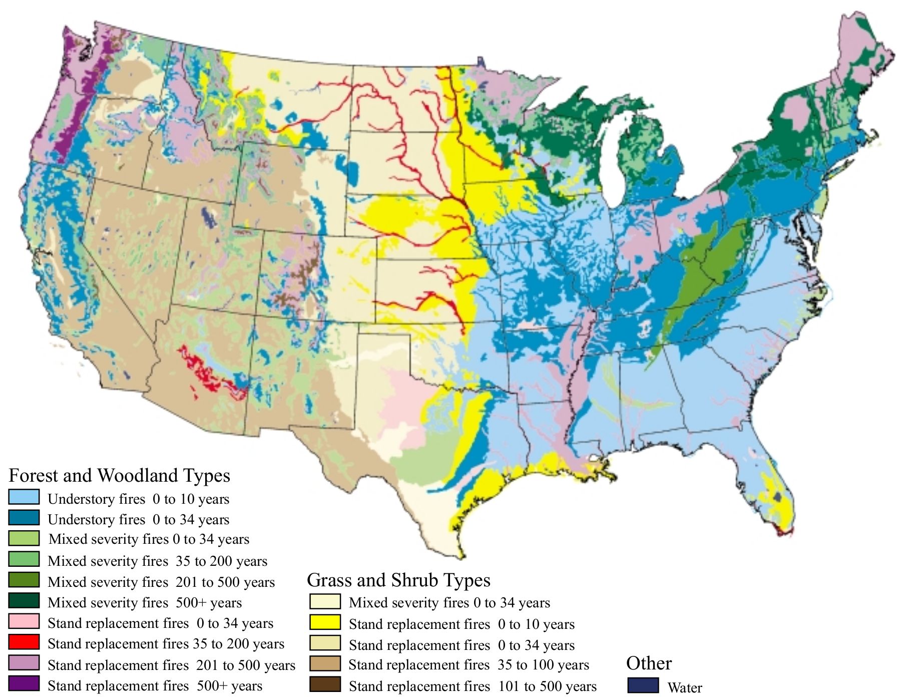 Fire regime types based on Kuchler's Potential Natural Vegetation types (prepared by Jim Menakis).